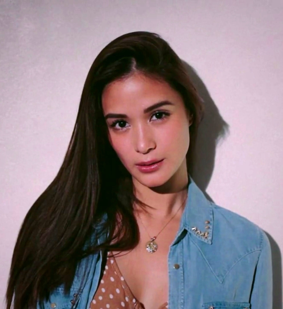 Phillipine actress, singer, model, and television presenter Heart Evangelista posing without makeup.